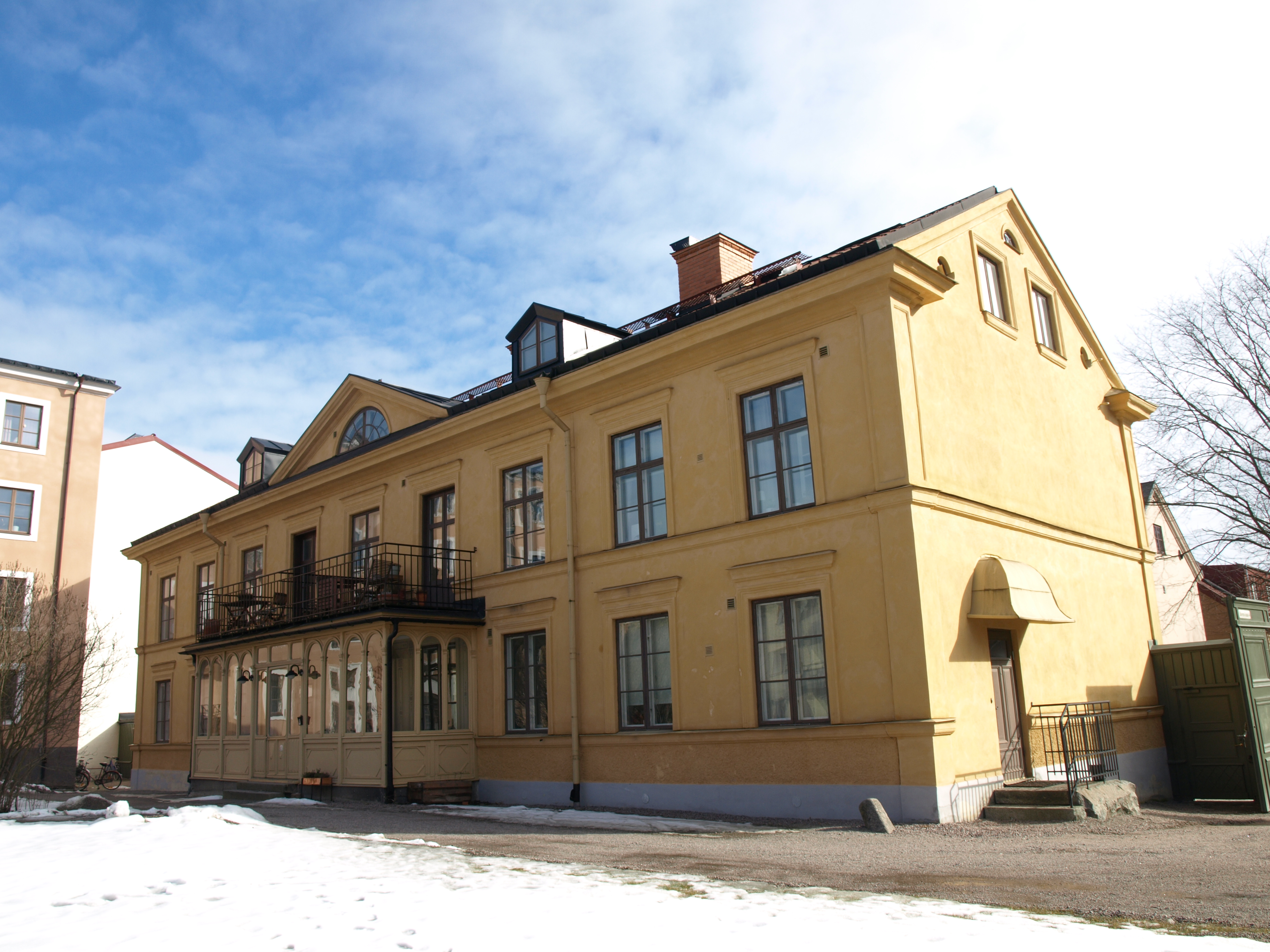 "Prinshuset" - "The princes house" in Uppsala, Sweden. It has got its name from when many sons of king Oscar I lived in the house during their student time at Uppsala University.